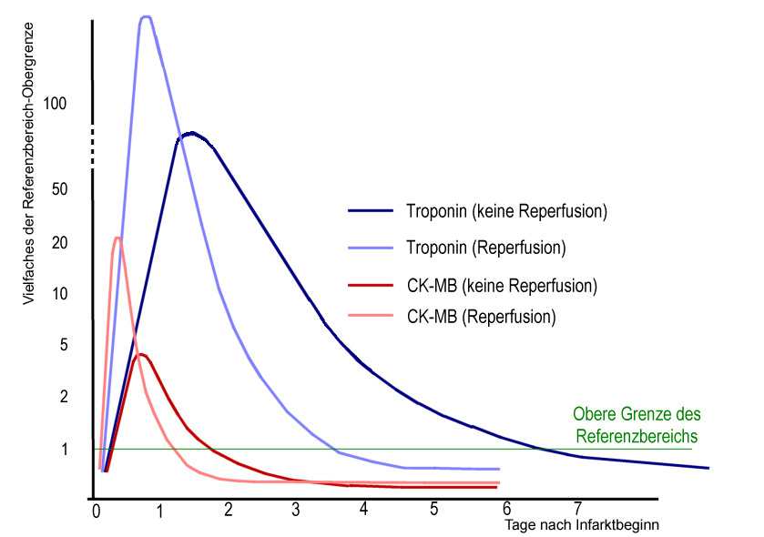 typical changes in CK-MB and cardiac troponin in Acute Myocardial Infarction